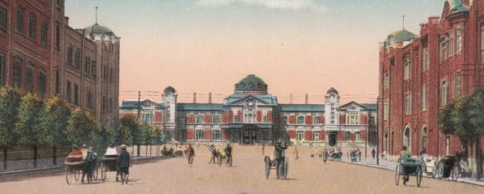 Mukden Chiyoda-dori 1910s